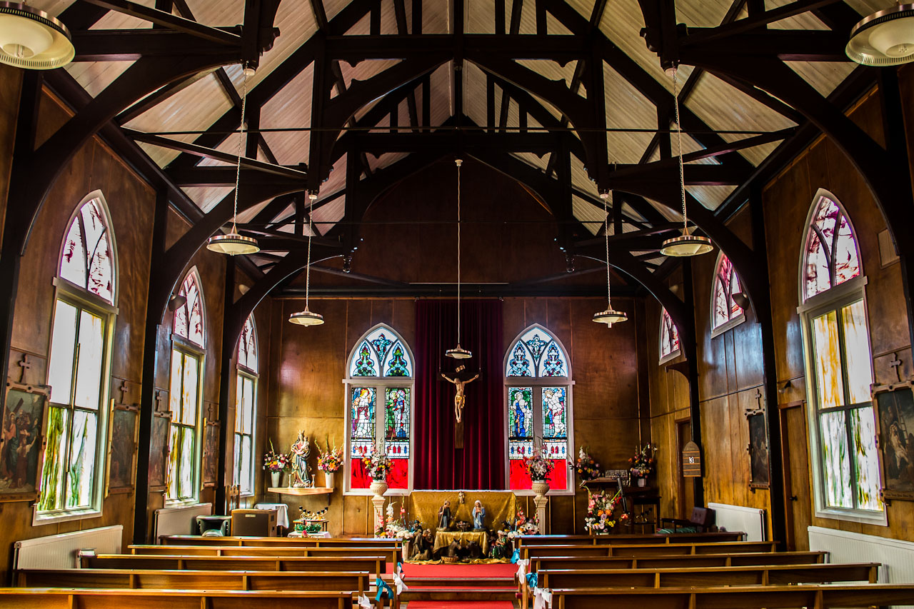 The interior of St. Mary's Catholic Church in Stanley, Falkland Islands